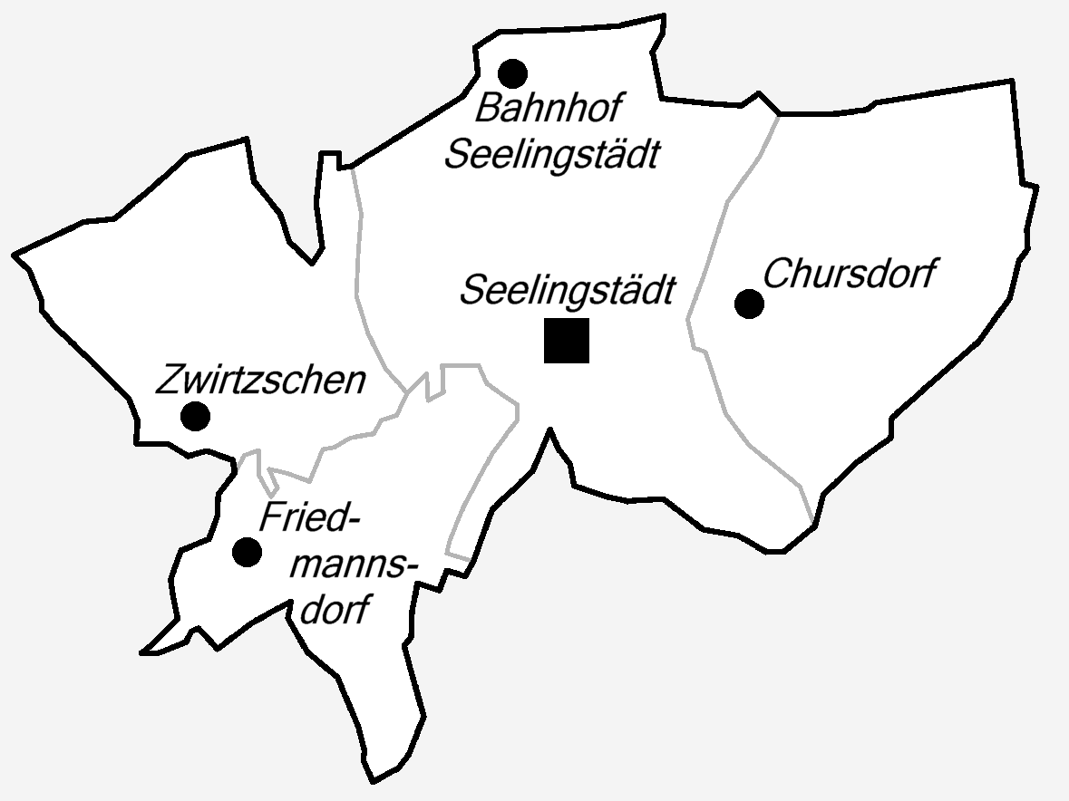 District-Map of Seelingstädt.